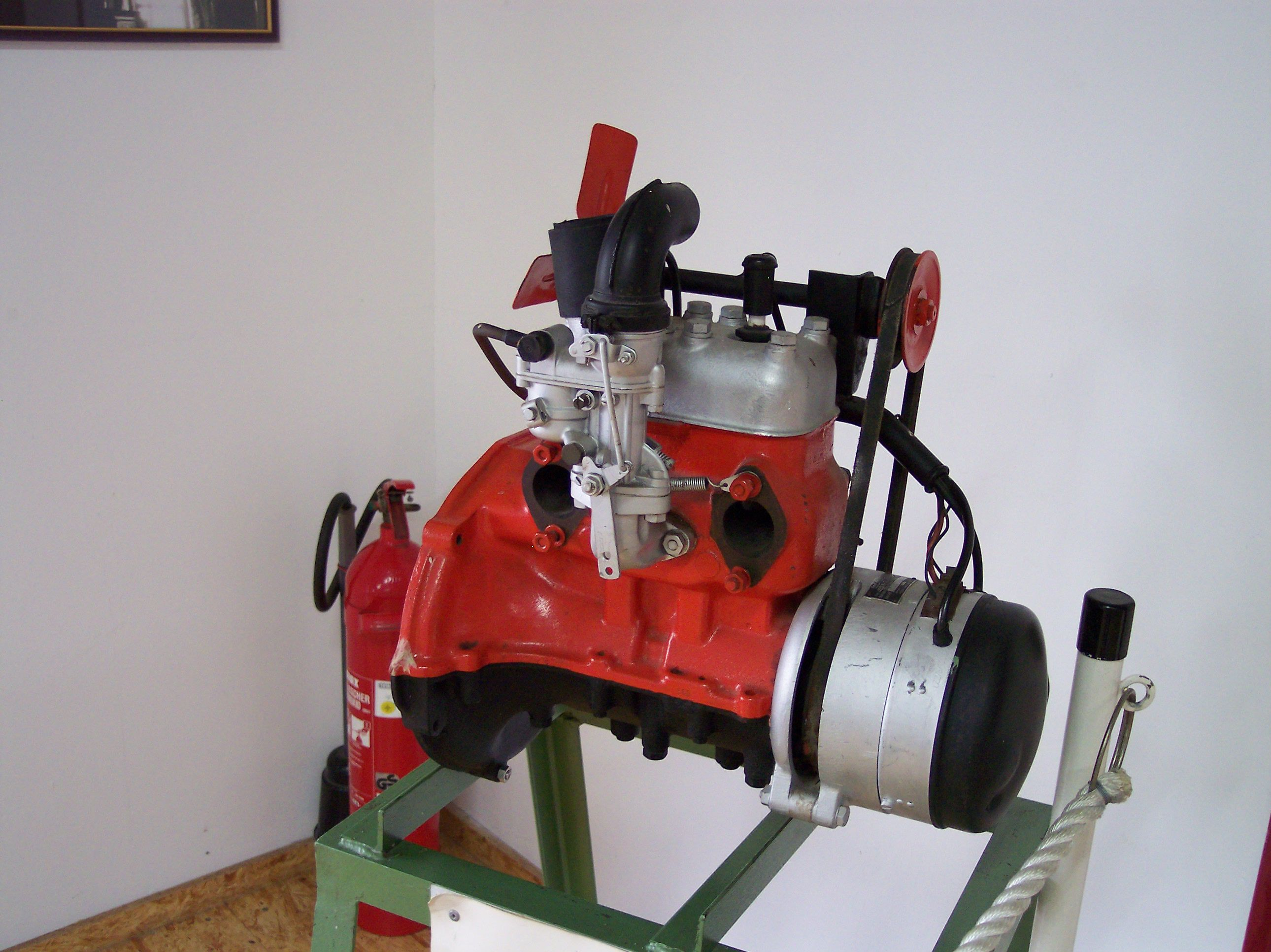 Description: This is not a Heinkel Kabine engine (see talk page) Source: own image